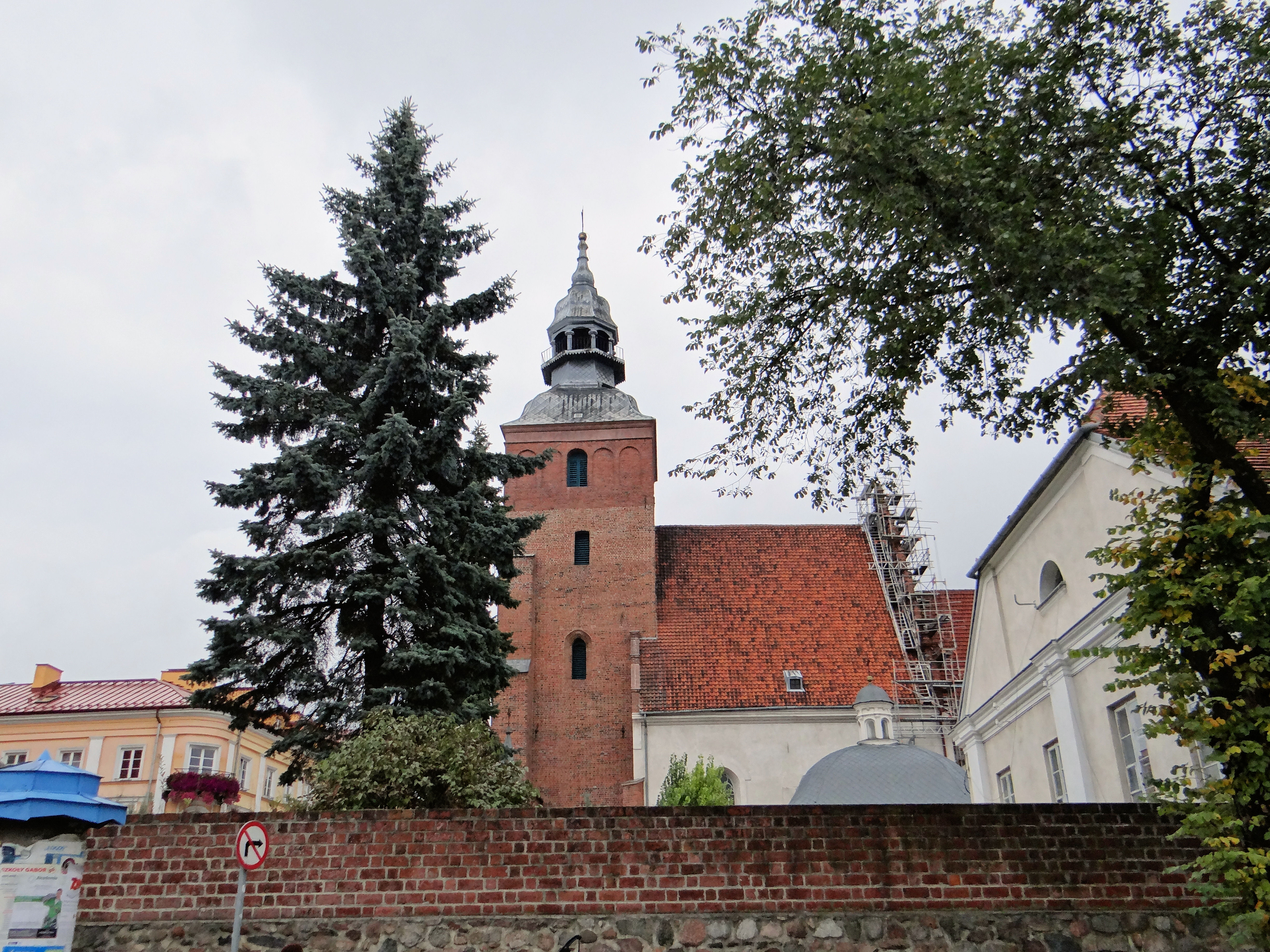 Saint James church in Piotrków Trybunalski